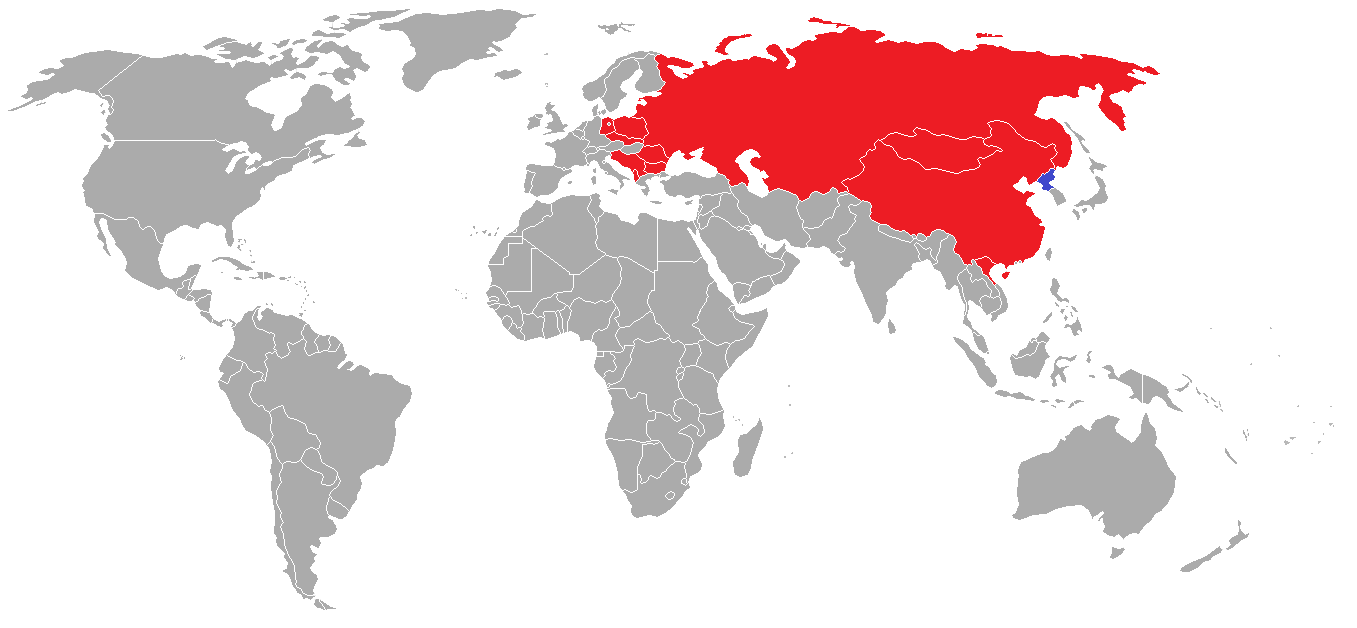 Operators of the BA-64 armoured scout car.